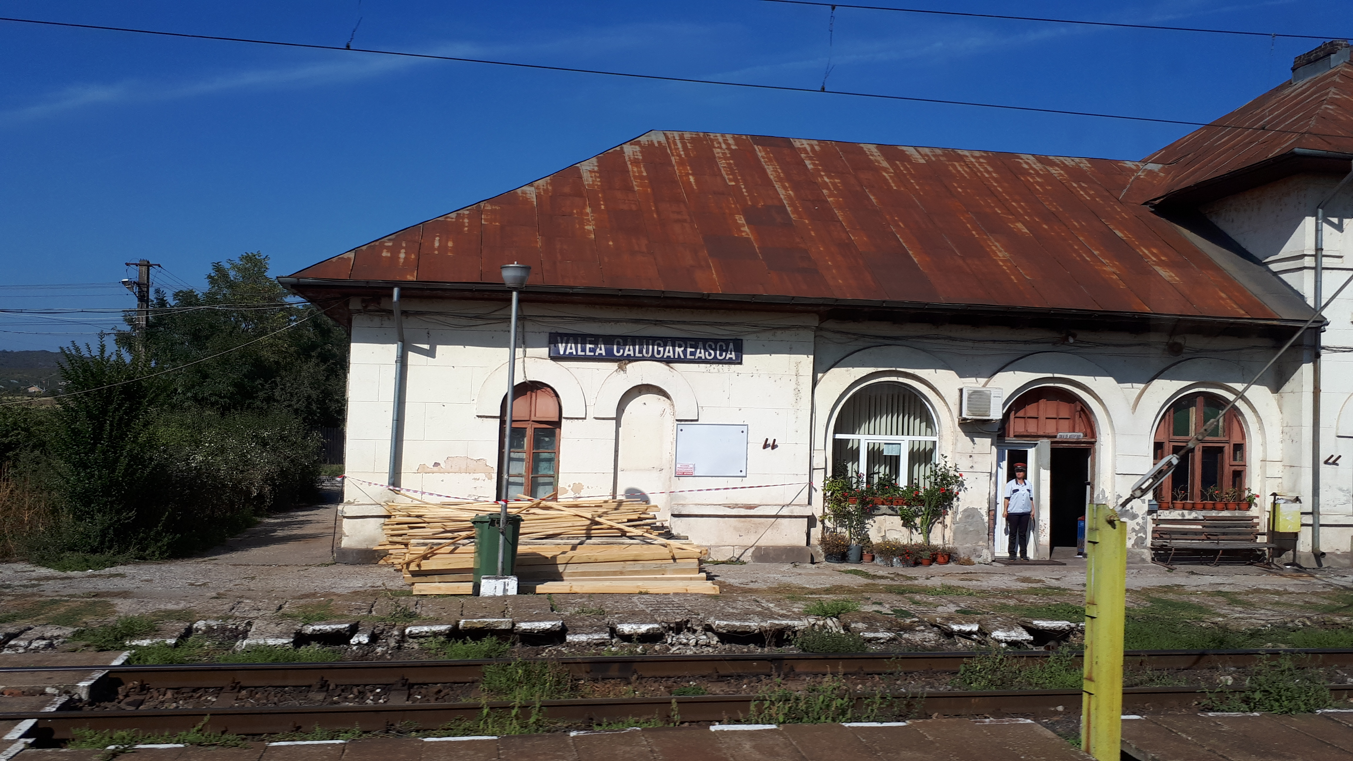 Valea Călugărească train station, Judetul Prahova